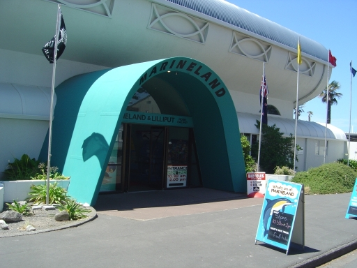 Photo of entrance to Marineland, Napier